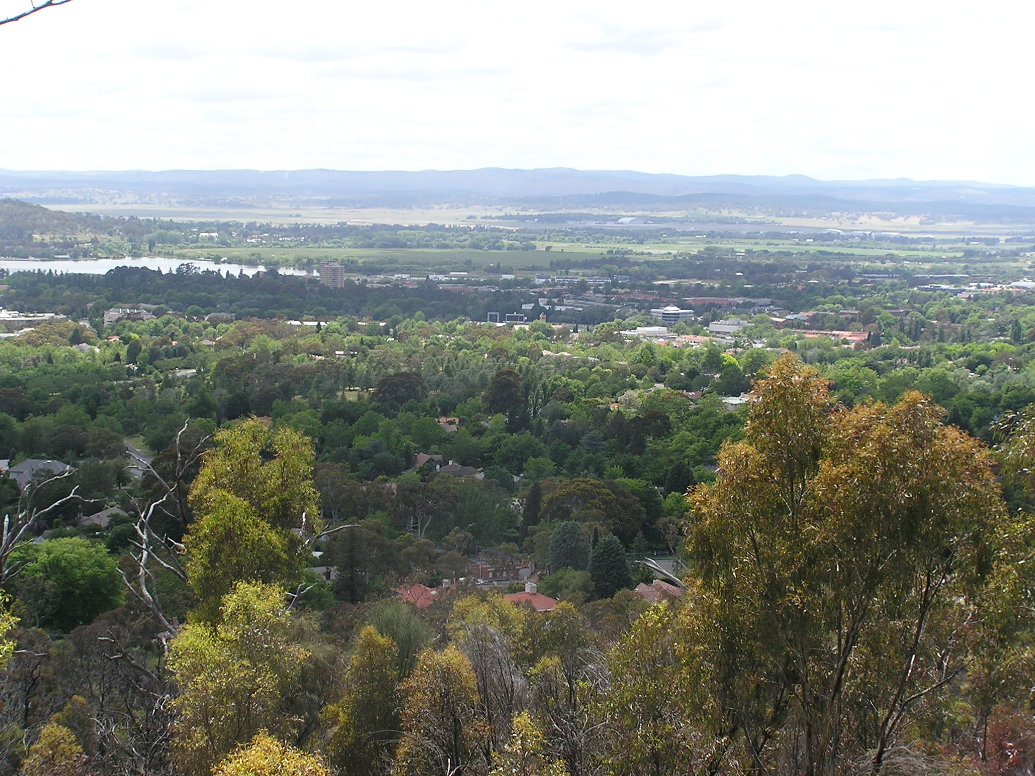 The suburb of Forrest, Australian Capital Territory viewed from Red Hill